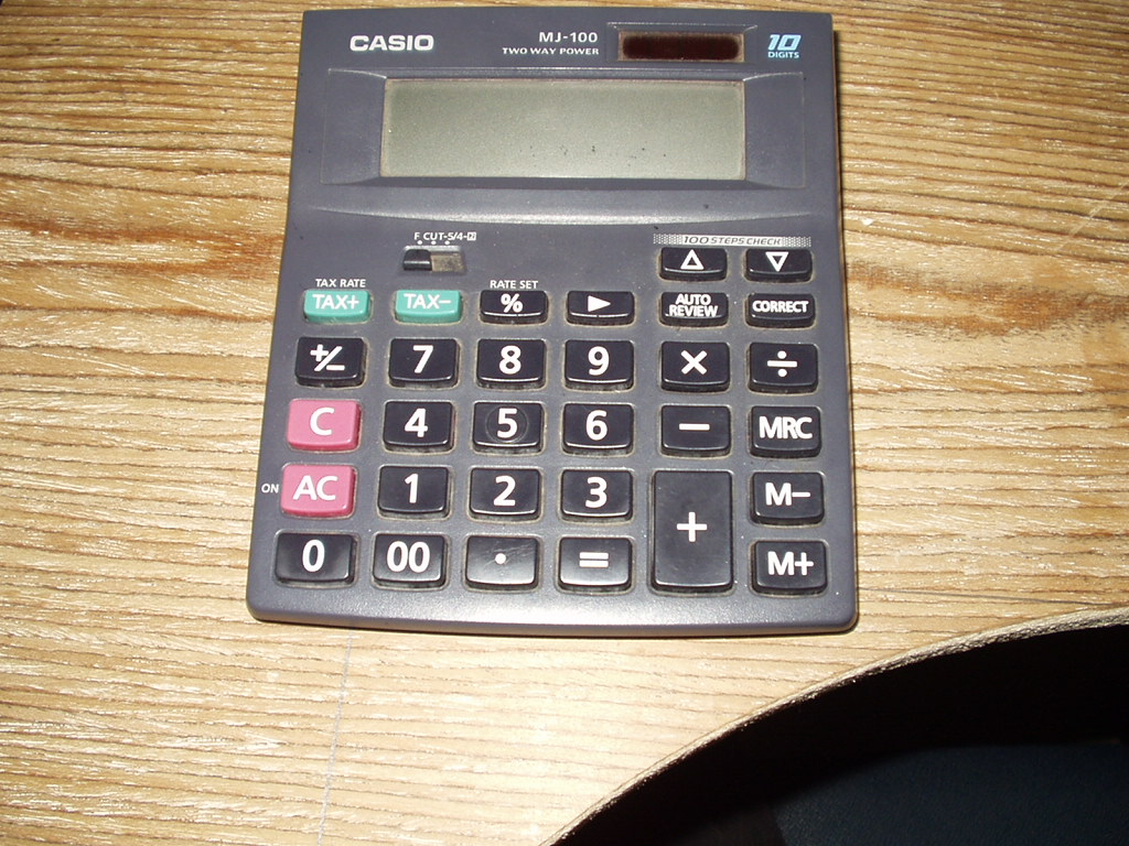 Casio calculator MJ-100.